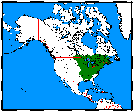 Eastern chipmunk (Tamias striatus), range map, depending on the range map at IUCN red list